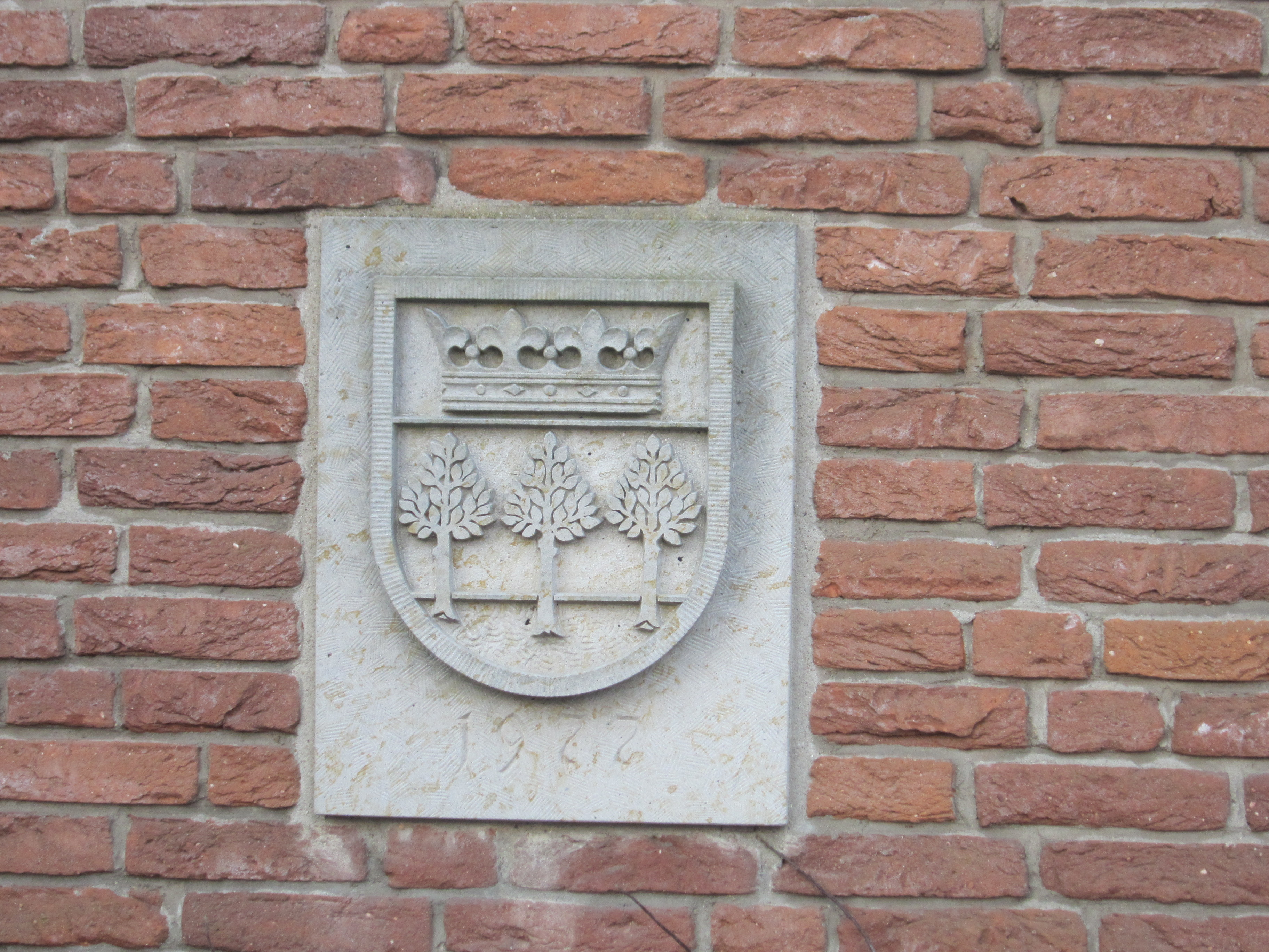 Coat of arms of Kronshagen made of stone